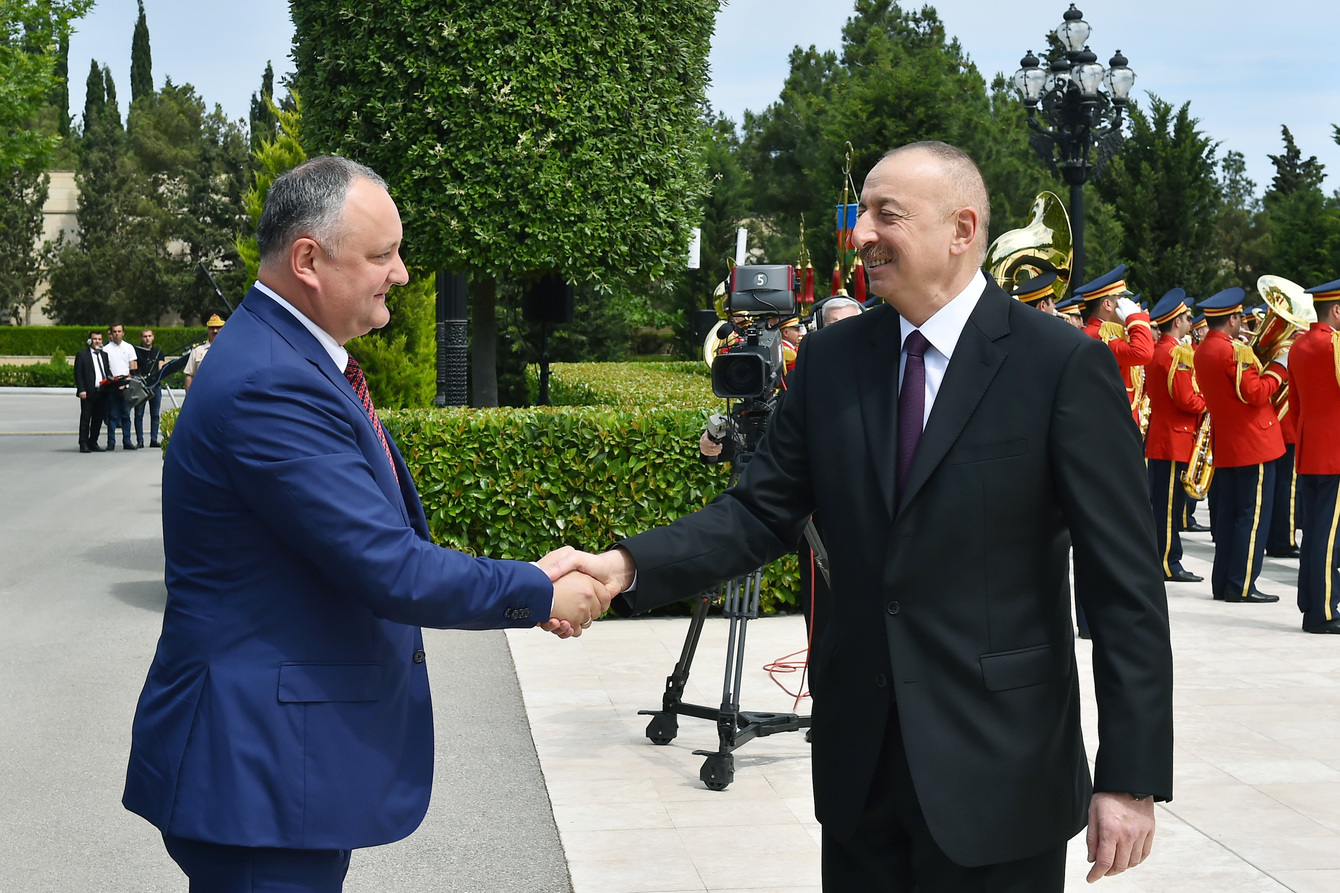 Official welcoming ceremony held for Moldovan president Igor Dodon